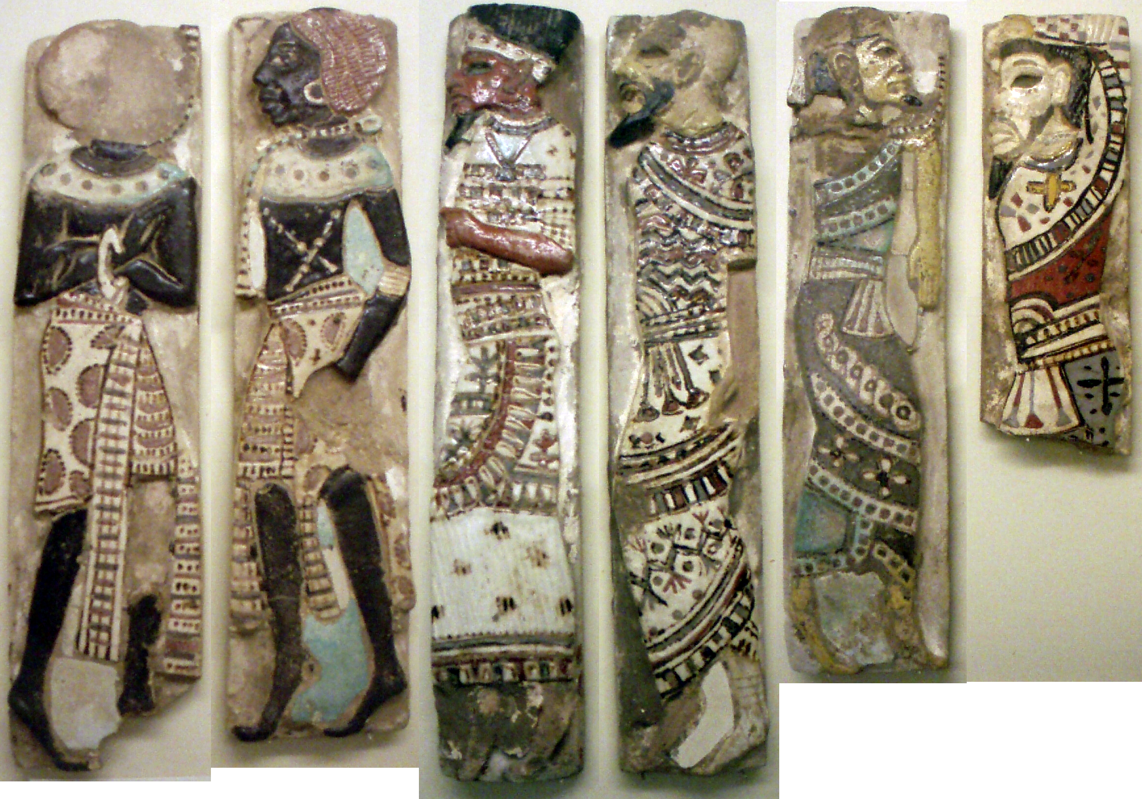 A compilation of the glass and faience inlays depicting the traditional enemies of Ancient Egypt, found at/by the royal palace adjacent to the temple of Medinet Habu, from the reign of Ramesses III (1182-1151 B.C.) Representations are (in order) a pair of Nubians, a Philistine, an Amorite, a Syrian and a Hittite. On display at the Museum of Fine Arts, Boston.